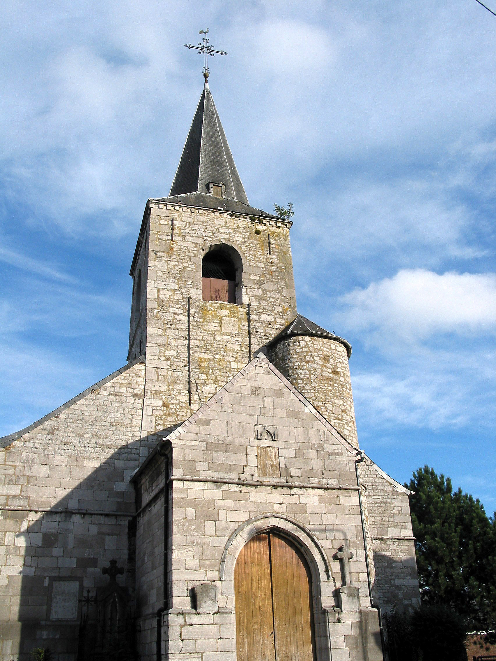 Montigny-le-Tilleul (Belgium), the Saint Martin's church (XIII/XVIth centuries).